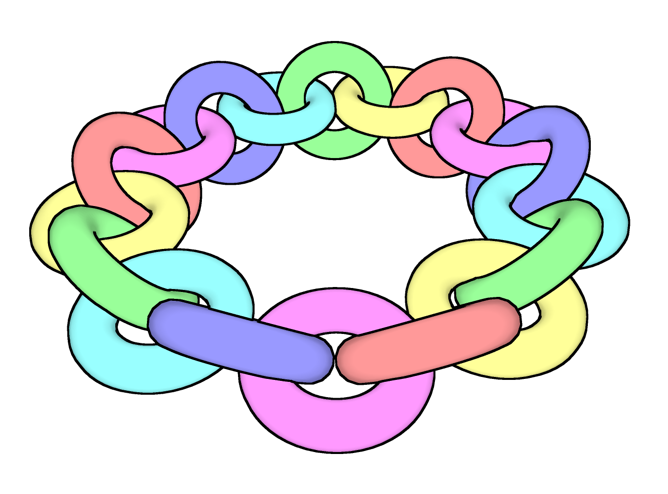 First iteration of the Antoine's necklace fractal rendered with blender